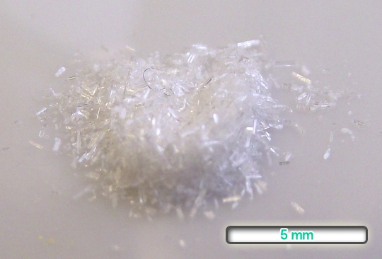 Photo of Ethambutol, pure